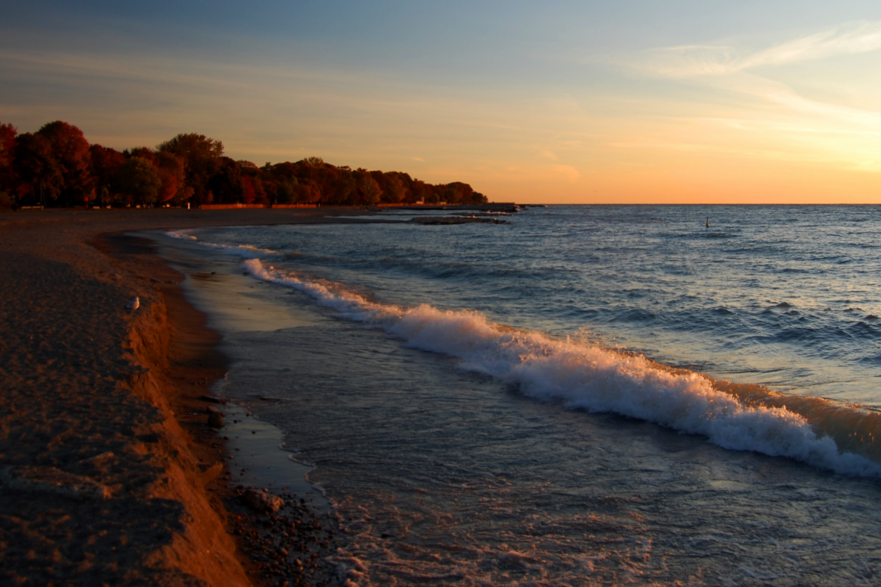 Kew Beach at sunrise. Toronto, Canada.